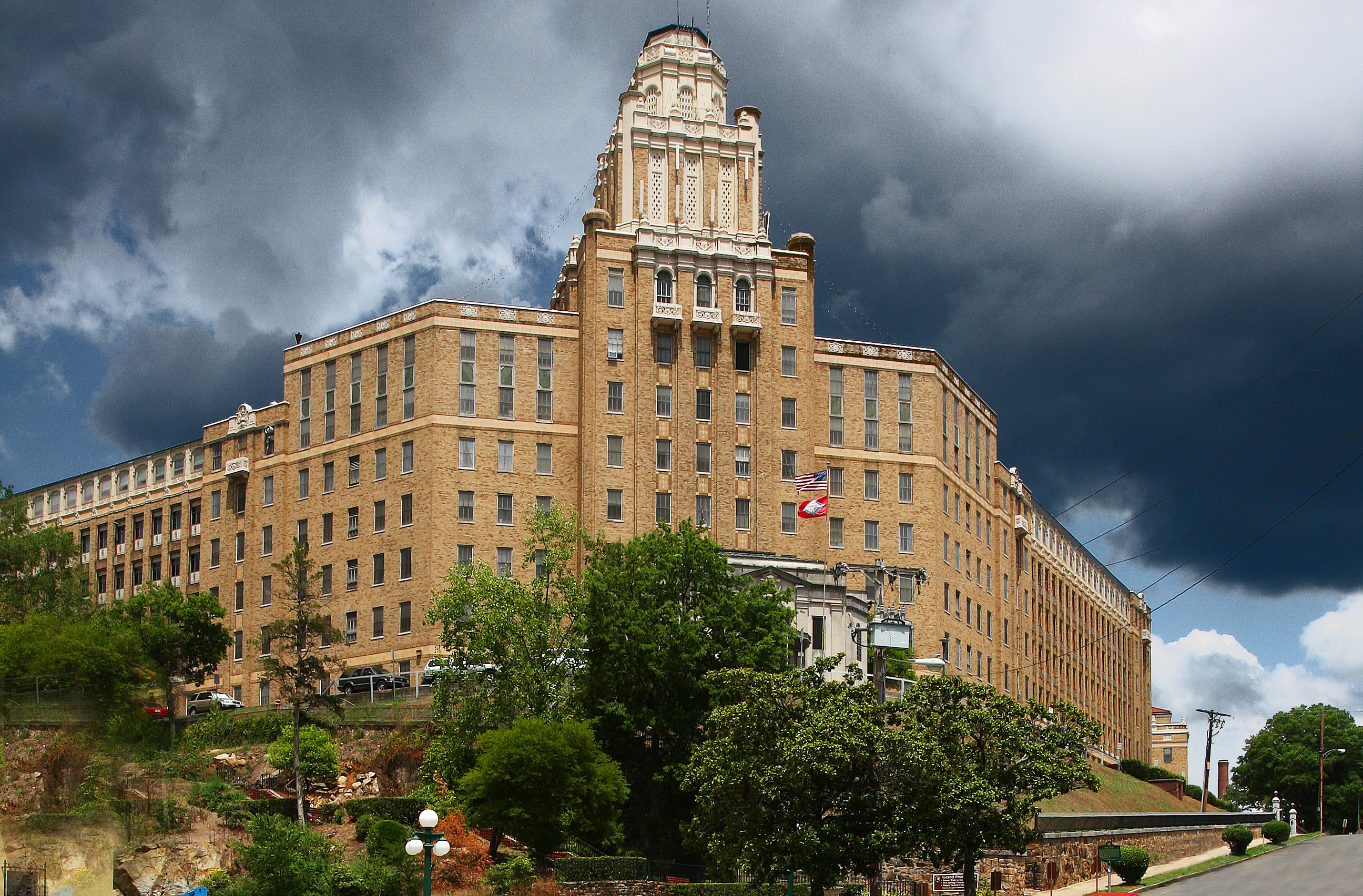 Buidling is now the Hot Springs Rehabilitaion Center. Structure was completed in 1933. In October 1933, the new Army and Navy Hospital opened as an imposing landmark in the heart of downtown Hot Springs. According to a history of the building by Carl Enna, the layout of the hospital was as follows: The morgue was housed in the rock and concrete basement, which also made it a perfect bomb shelter, the first in Garland County. The 1st floor was the medical ward for men and children. The 3rd floor was the general mess hall, whereas, the 4th floor served as the officer’s mess hall. The operating rooms, considered at the time to be the finest in the South, were located on the 6th floor. Also located on the 6th floor was a library and an outdoor theater where first-run movies were shown two to three times per week. There was also a sundeck on the 6th floor. Patients received body massages and physical therapy treatments in the halls of the north wing on the 6th floor.The 7th floor housed an observation gallery overlooking the 6th floor operating rooms. The 7th floor was home to X-Ray and the radium treatment area. Obstetrics was located on the 8th floor along with the VIP Penthouse for retired officers. The 9th floor was home to KANH, the Army/Navy Radio Station that broadcast four different types of programs that were distributed throughout the hospital.The radio station used pillow speakers, a unique technology for the time (Arkansas Historic Preservation Program).